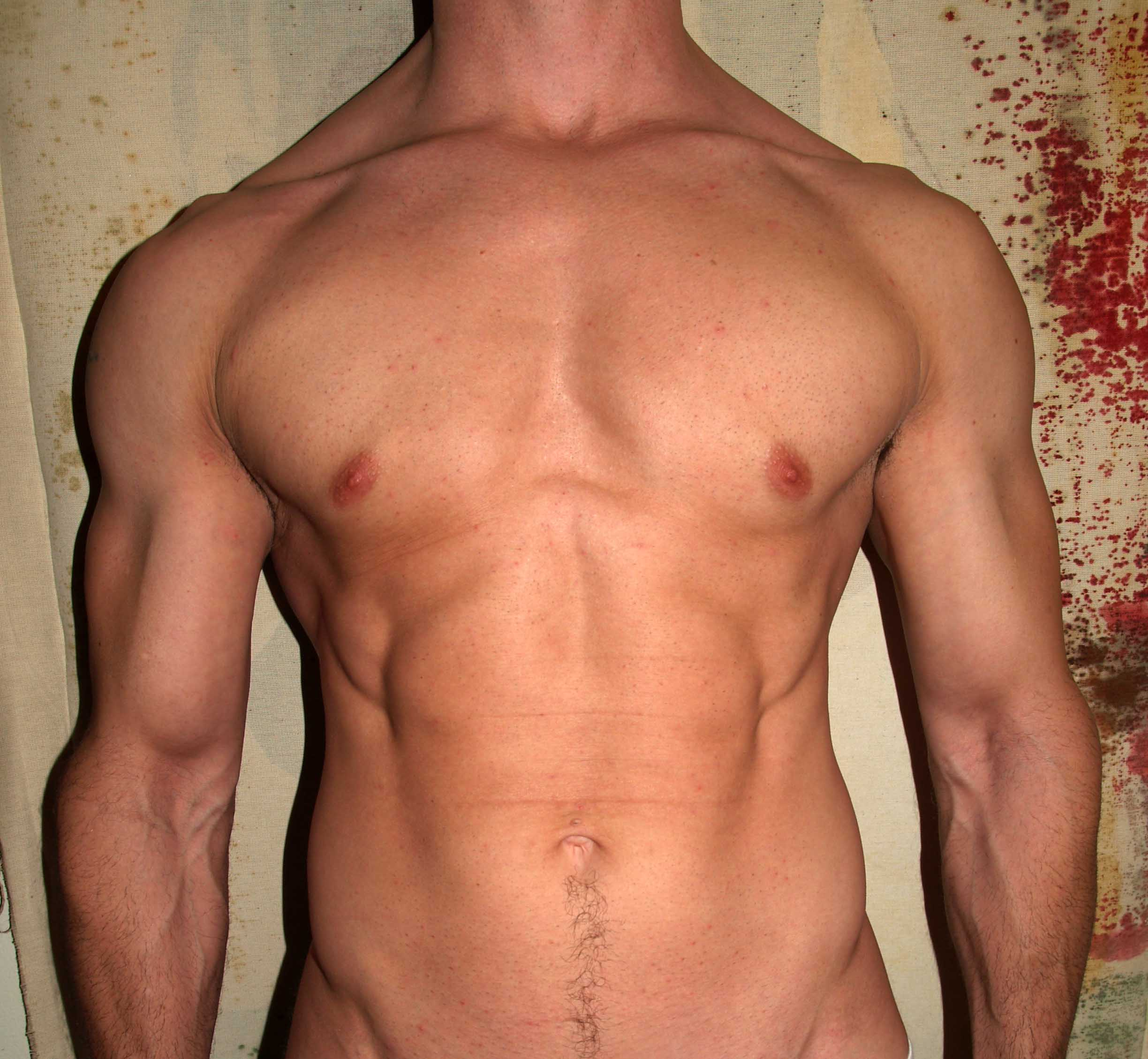 Chest of a male model.